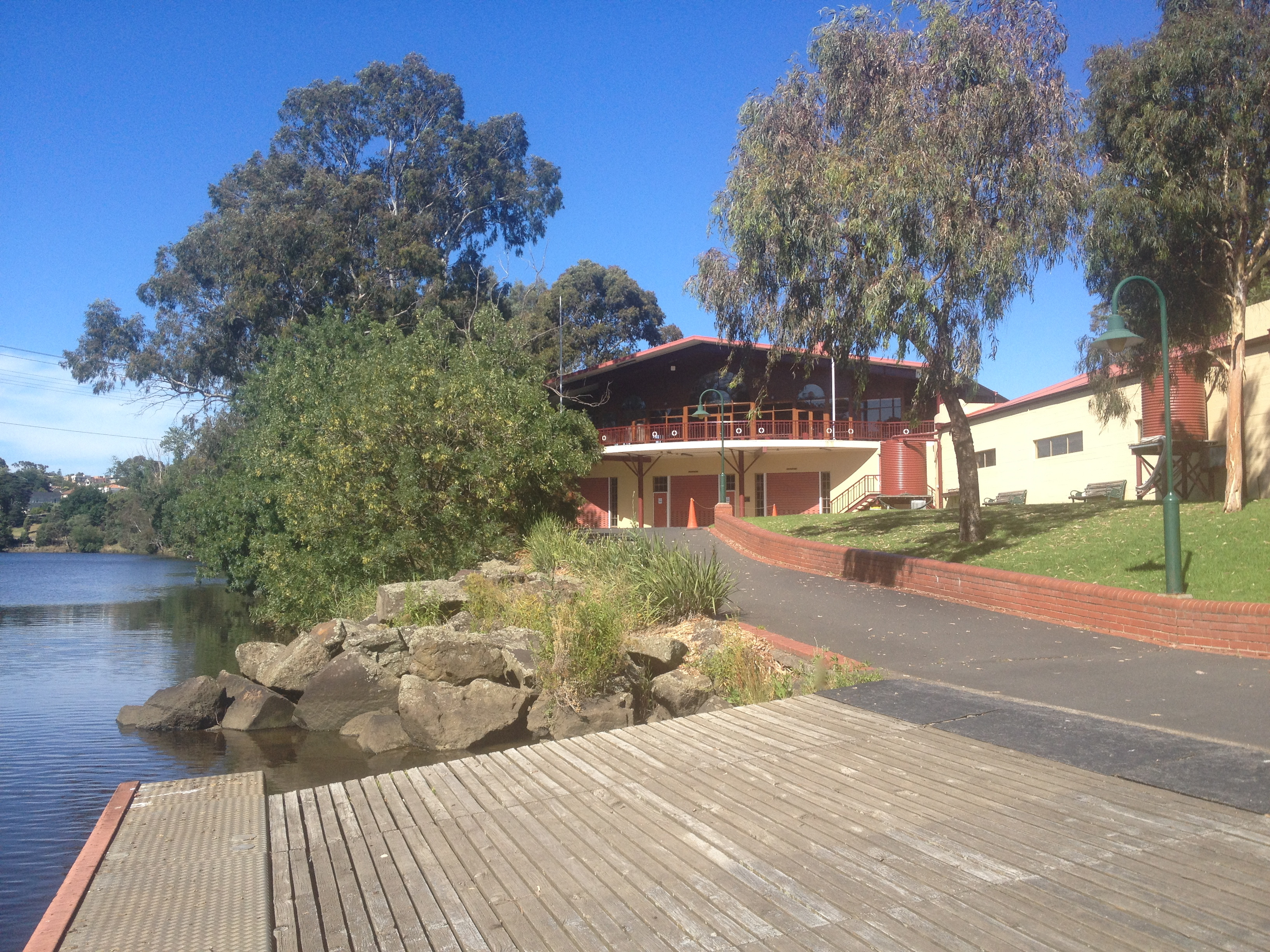 The boat ramp and boat houses are on the banks of the Yarra River within the grounds of Scotch College Melbourne